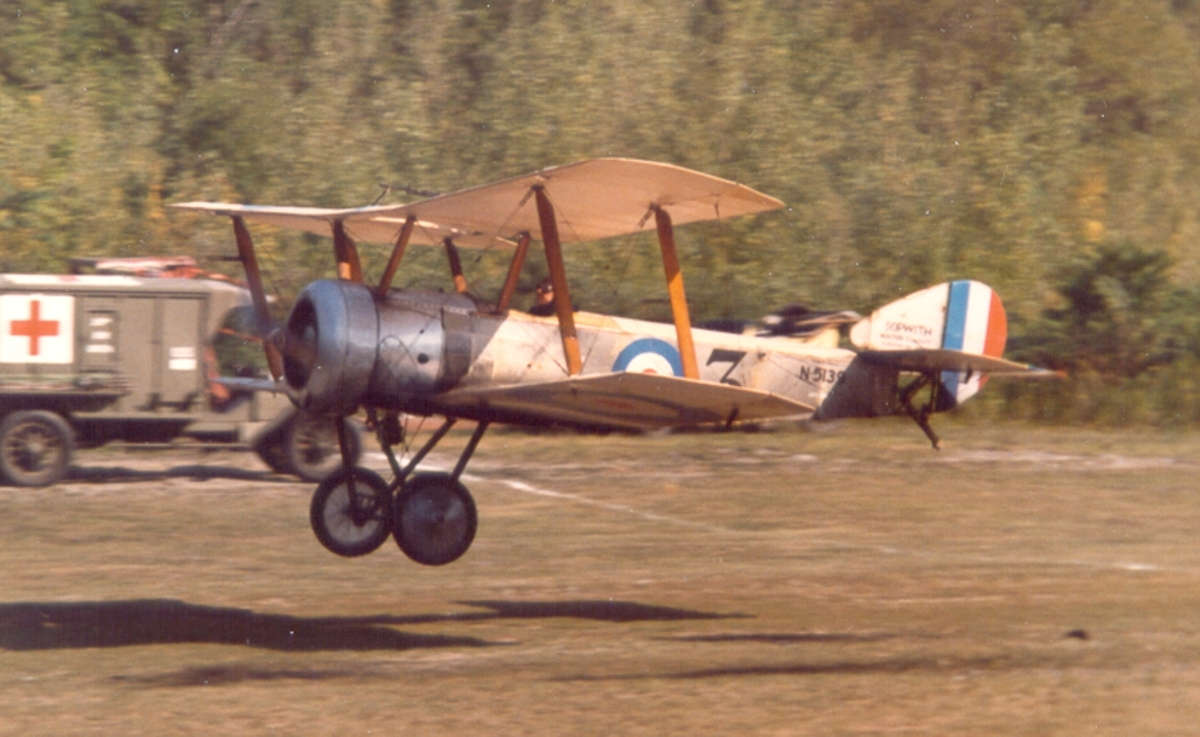 Richard King's authentic Sopwith Pup reproduction flying at Old Rhinebeck Aerodrome, early 1980s